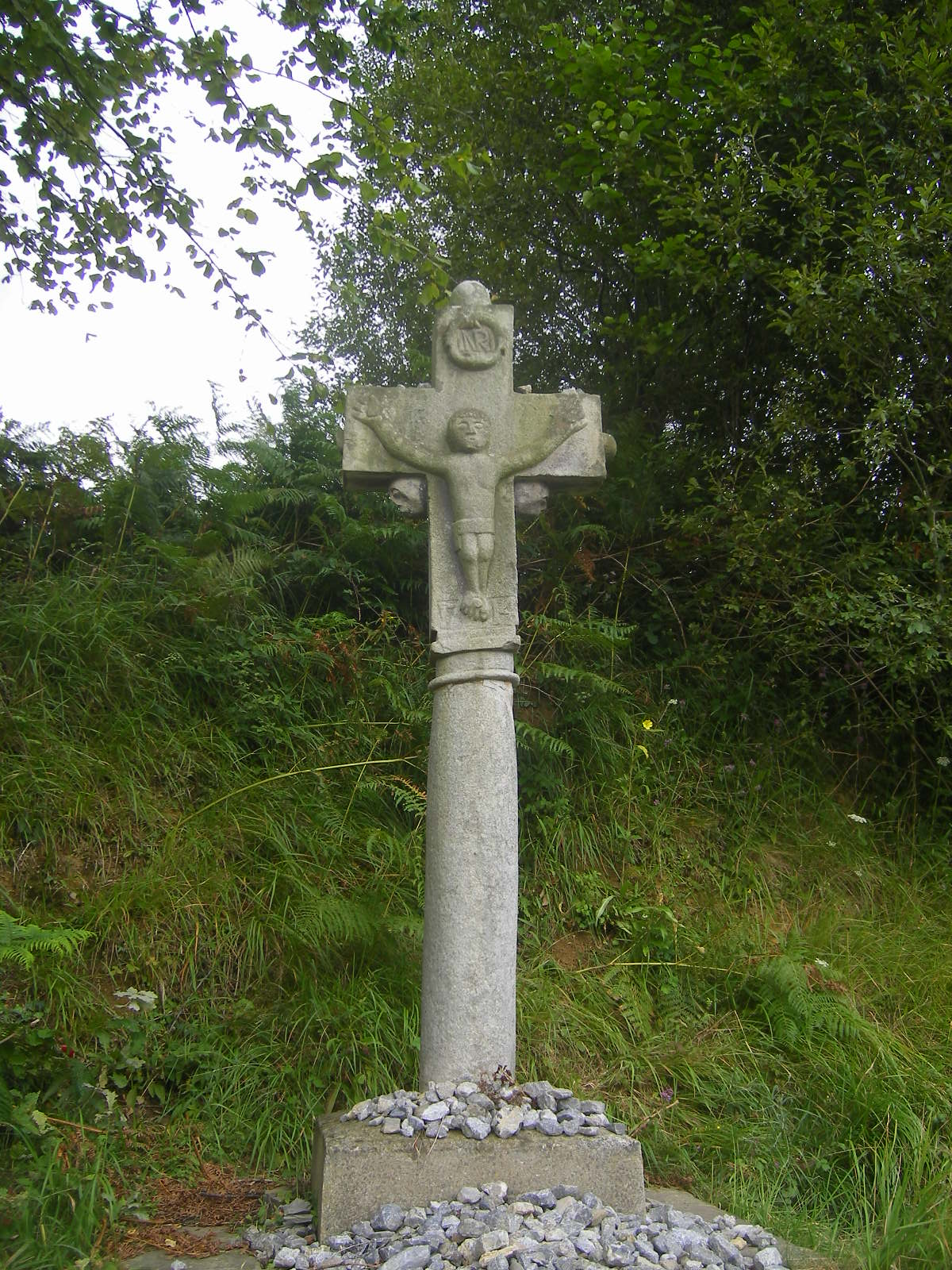 Galzetaburu cross, commune Gamarthe